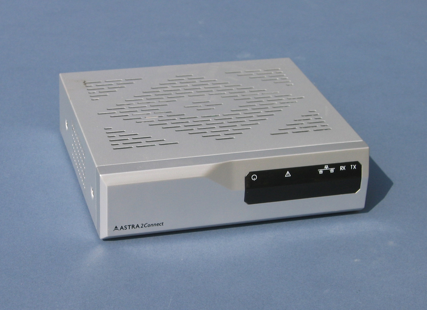 IPmodem used for the ASTRA2COnnect satellite broadband system